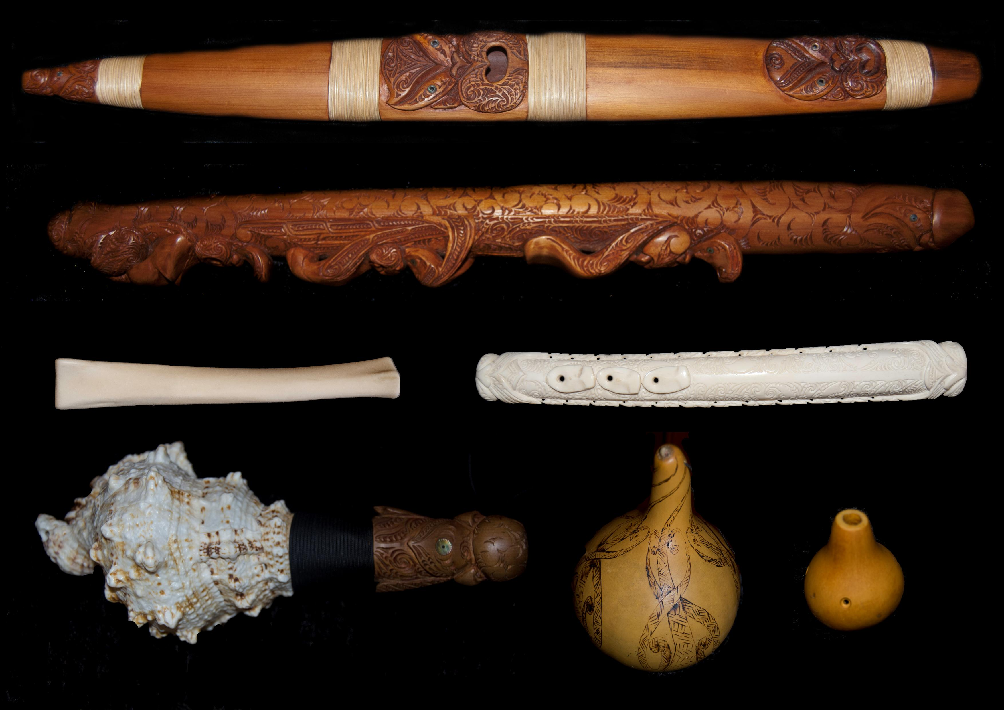 This picture displays several traditional Maori instruments belonging to master practitioner, Horomona Horo. The instruments are from bone, wood ,shell and gourd.